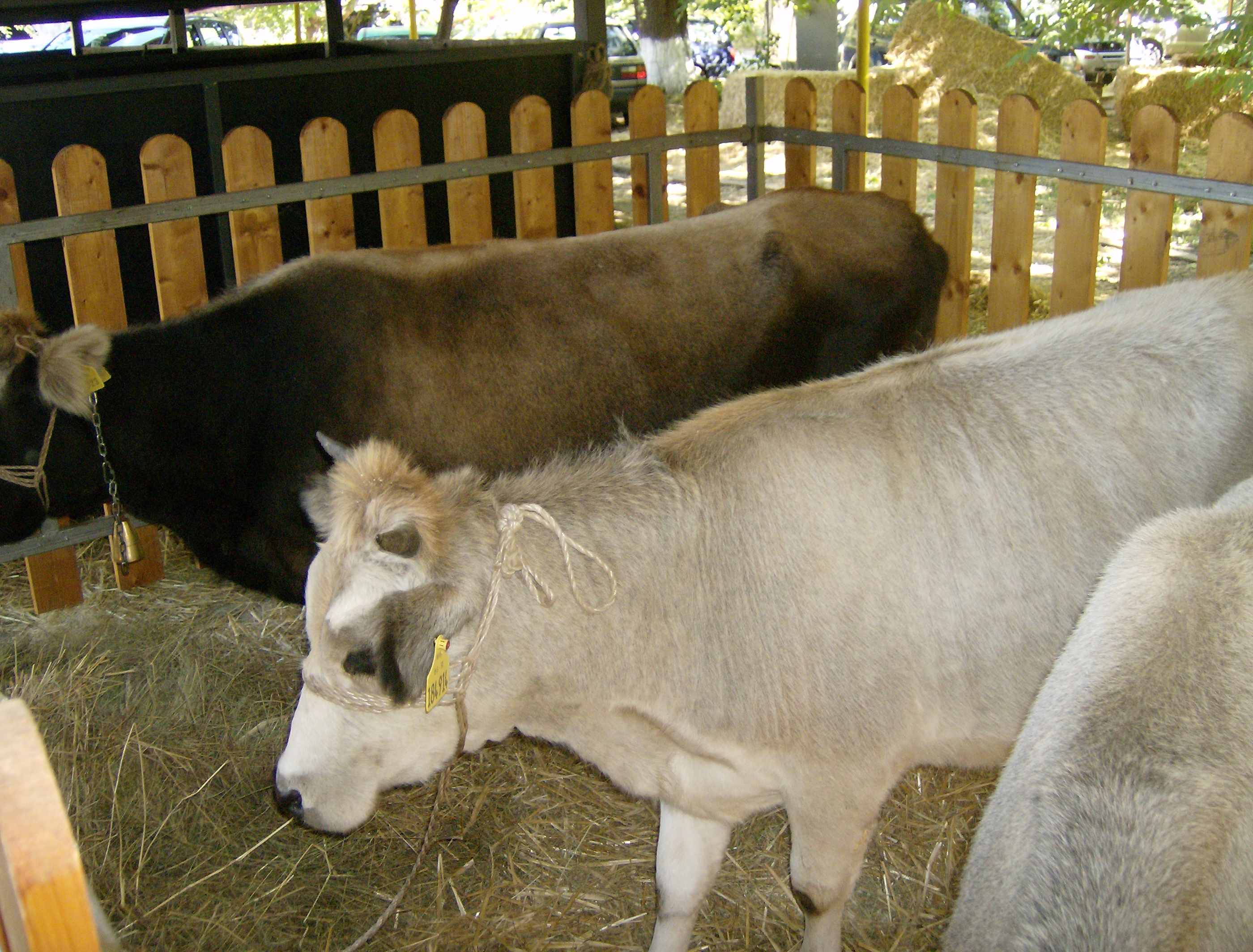 Rhodope Cattle